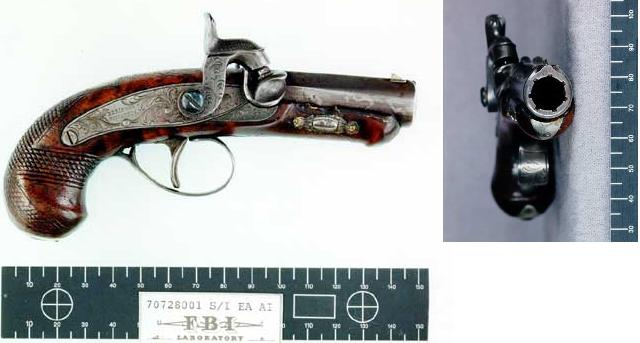 FBI photo of the Henry Deringer pistol (generically known as a derringer) used by Booth in the assassination of Lincoln. used in article at